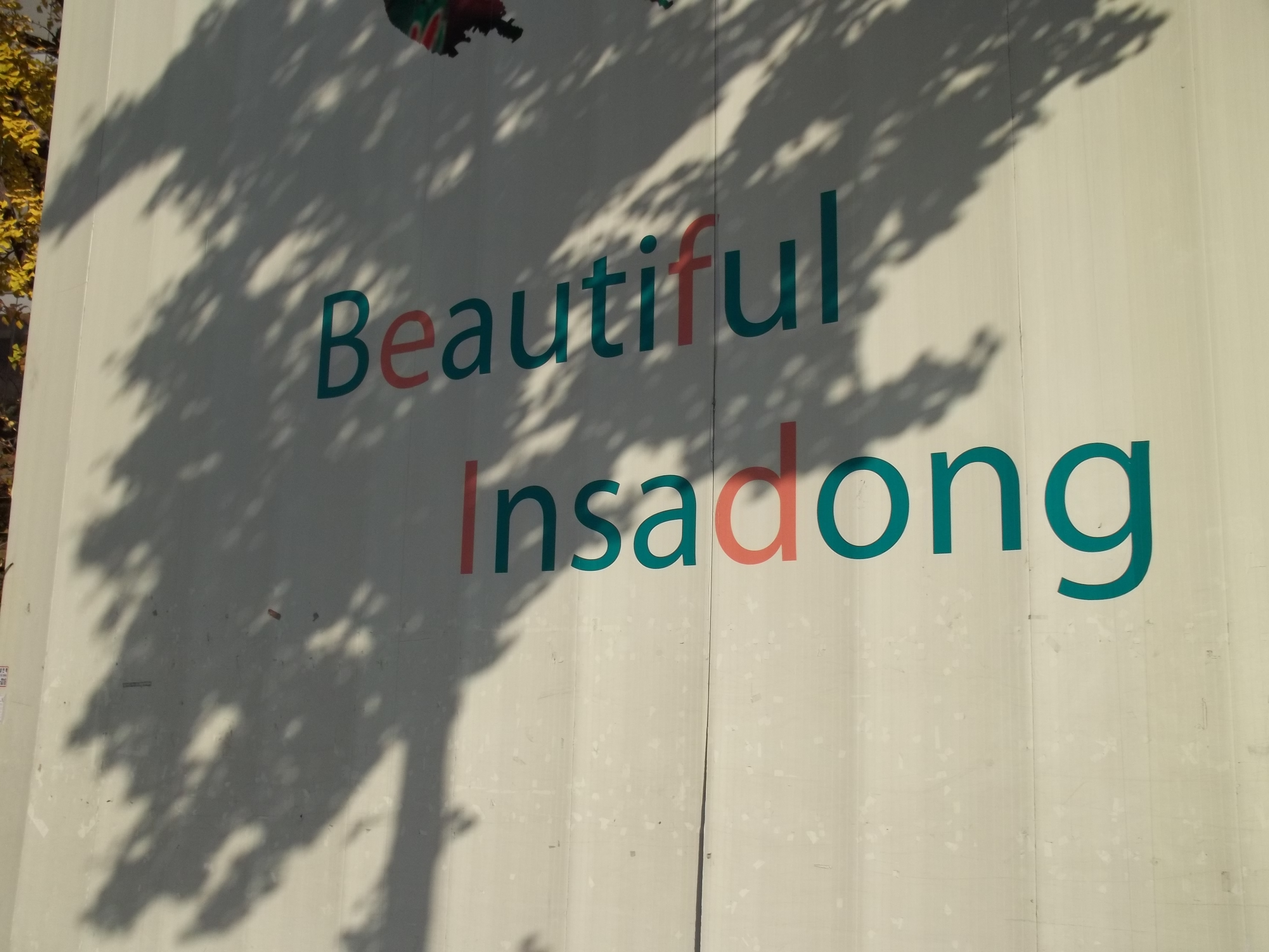 Insadong steet sign.